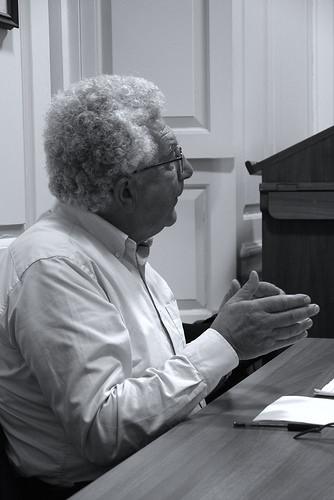 Avi Shlaim addressing the Oxford Theology Society